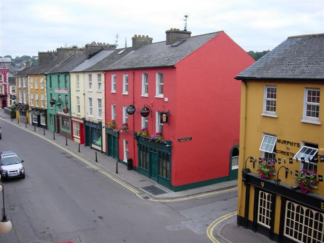 Oliver Plunkett Street, Bandon, West Cork. Five pubs and a restaurant are in this picture, with the Munster Arms hotel/pub/restaurant just off picture to the left.